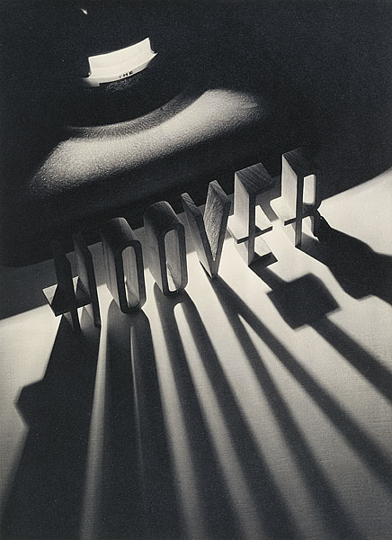 From the Collection of the National Gallery of Australia Accession number: NGA 82.1152 Advertisement for Hoover 1937 Creation Notes: 1939 elsewhere? Photography, Photograph, gelatin silver photograph Primary Insc: not signed, not dated inscribed verso, u.c., pencil, "Advert. illustration/50's" 34.7 h x 25.2 w cm Purchased 1982